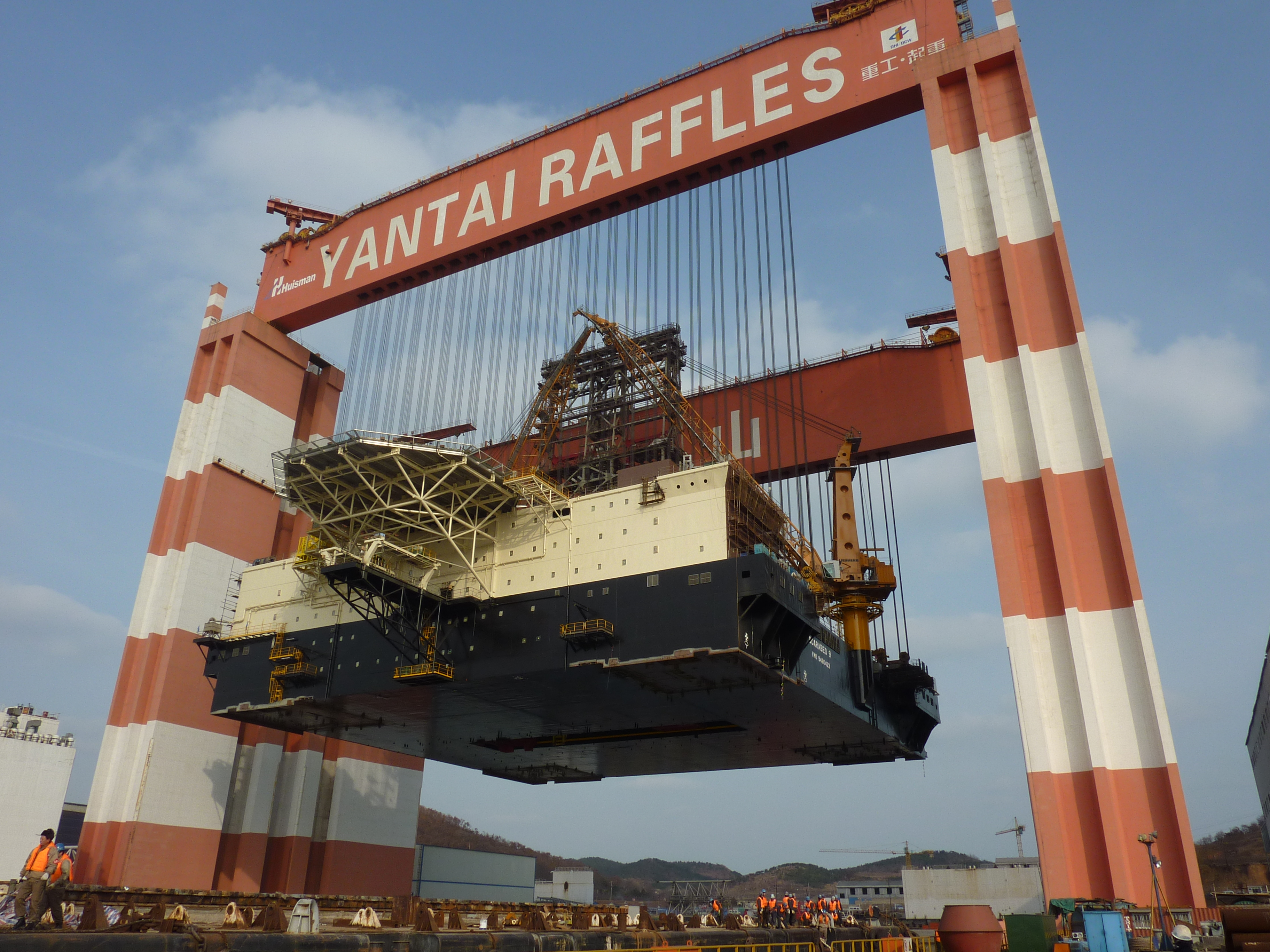 TAISUN holds the 17,100 metric ton deck box for the Frigstad D90 design semi-submersible "Scarabeo 9" in the air as the barge is moved out from underneath. This picture was taken at Yantai Raffles Shipyard in Yantai, China